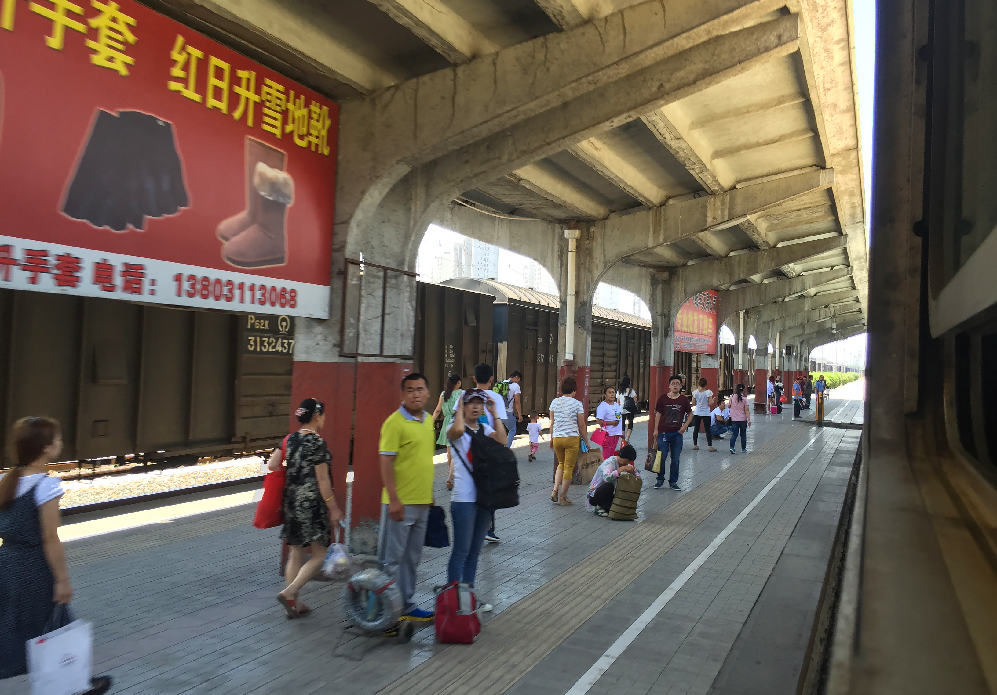 Xinji, which is reputed for leather business.